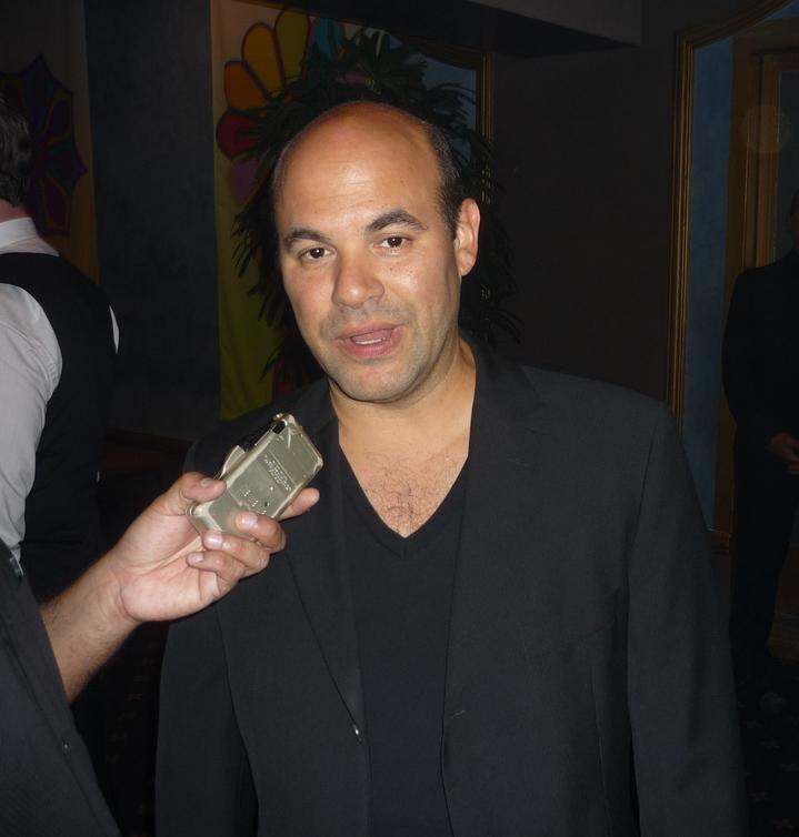 Comedian actor Ian Gomez at 2009 GLAAD Media Awards - Opening Night of Bacharach and David at The Music Box @ Fonda, Los Angeles.